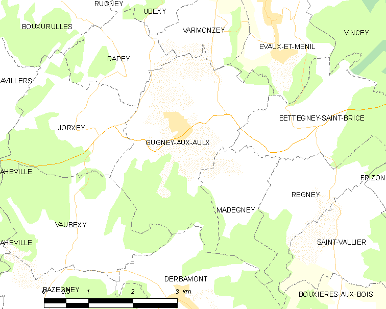 Map of French municipality Gugney-aux-Aulx